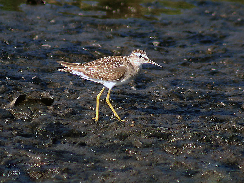 Wood Sandpiper Tringa glareola at Bharatpur, Rajasthan, India.